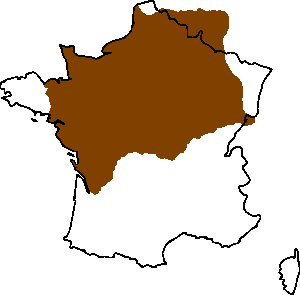 French language in France.